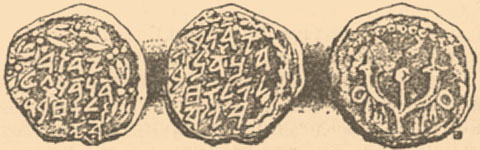 Illustration from Brockhaus and Efron Jewish Encyclopedia (1906—1913)